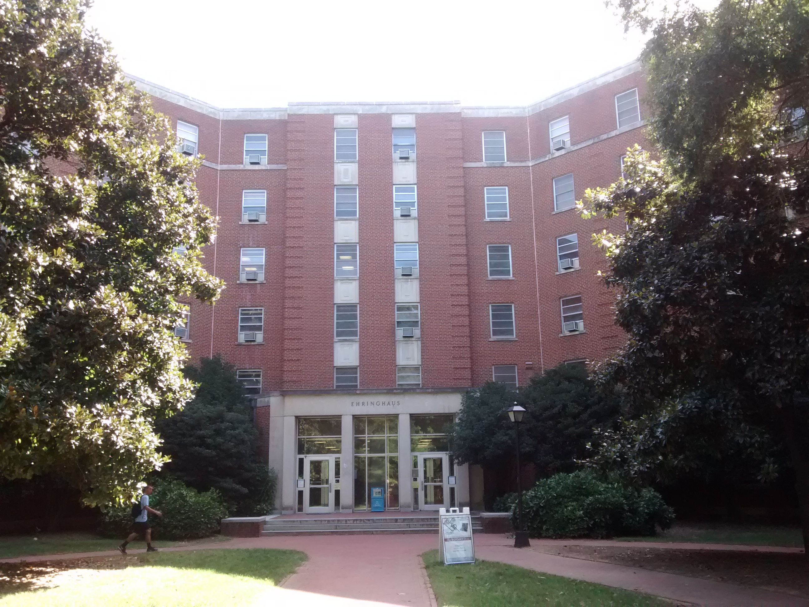 Ehringhaus Residence Hall at the University of North Carolina at Chapel Hill.